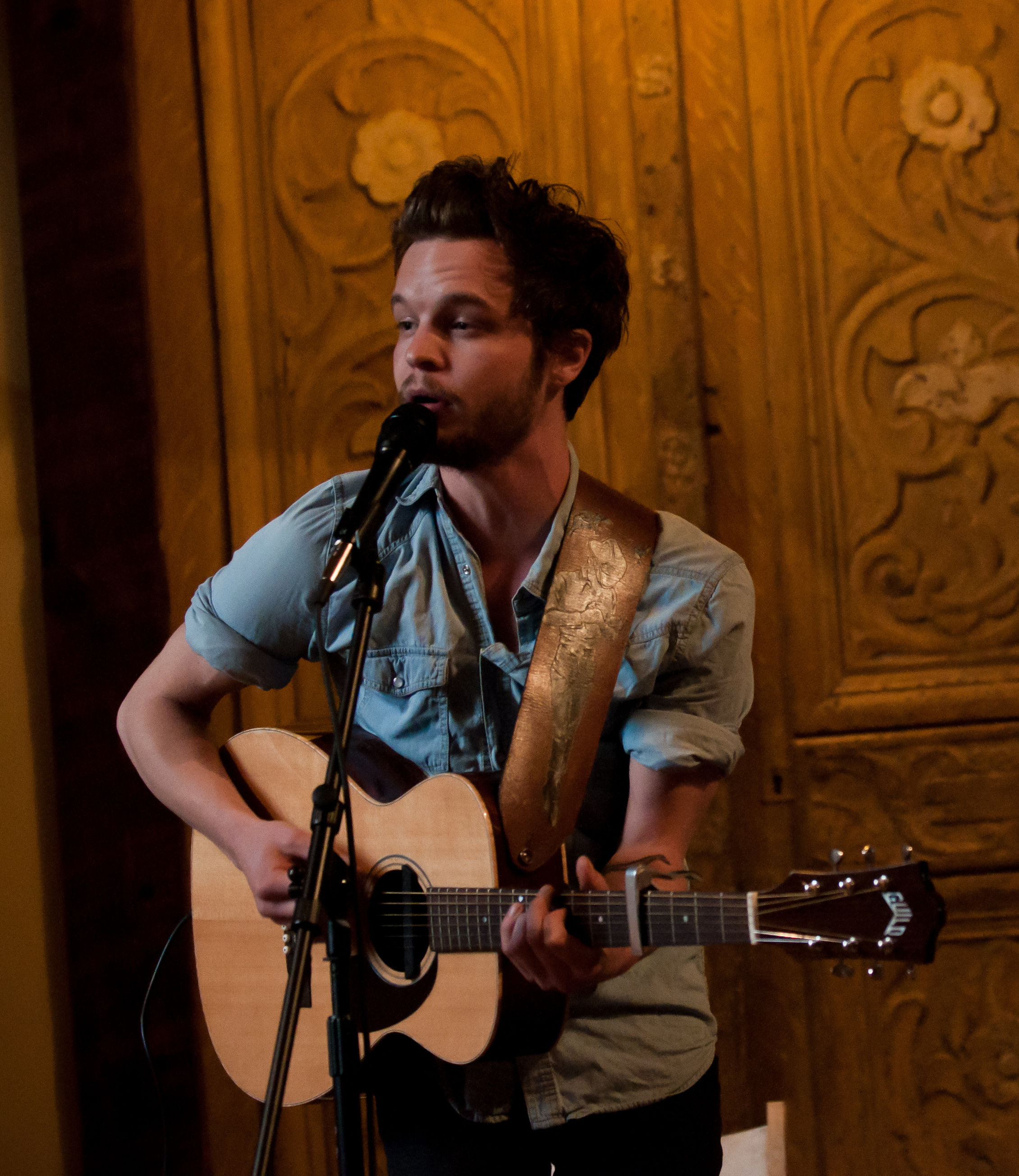 Tallest Man on Earth